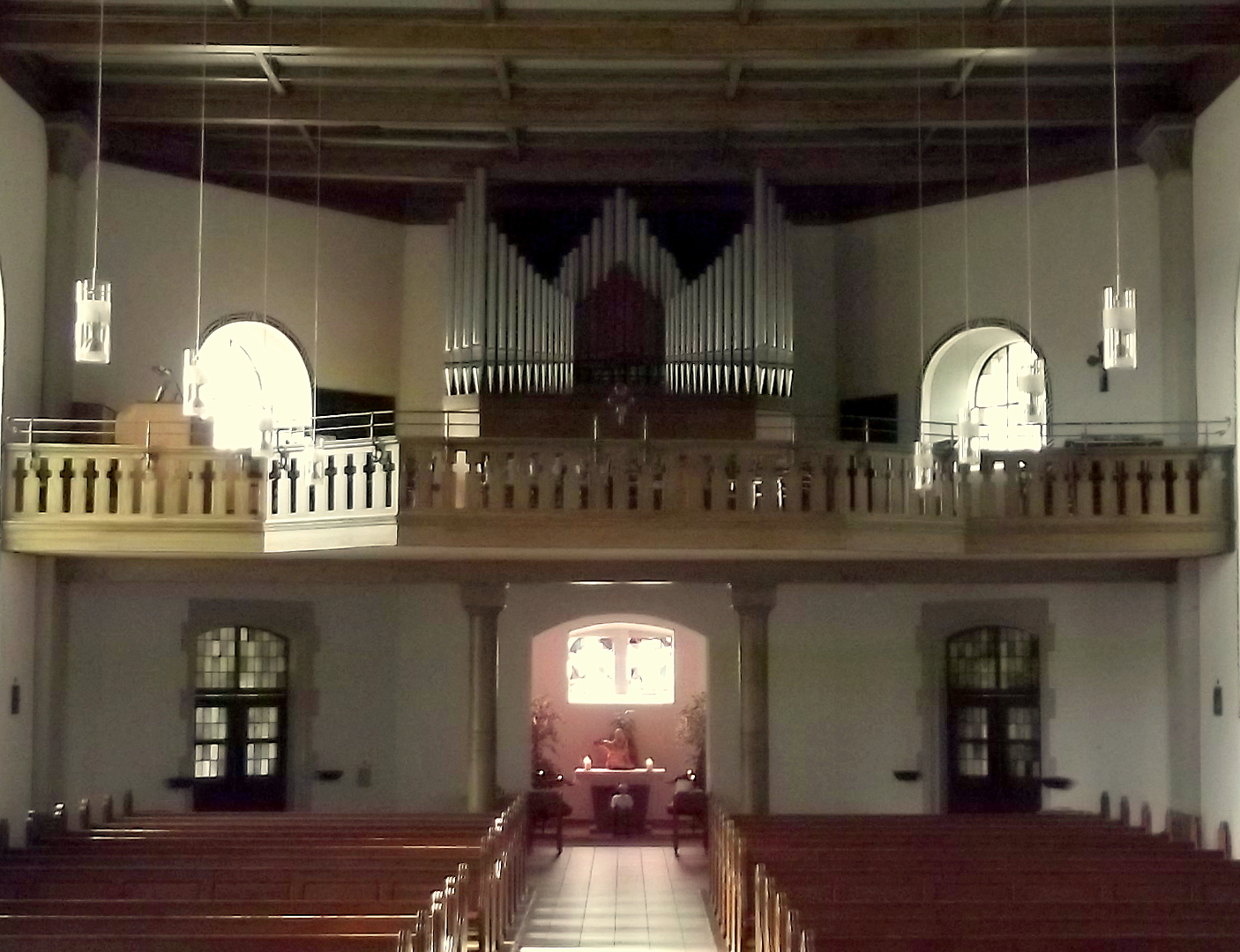 Interior of the roman catholic church in Britten, Saarland, Germany